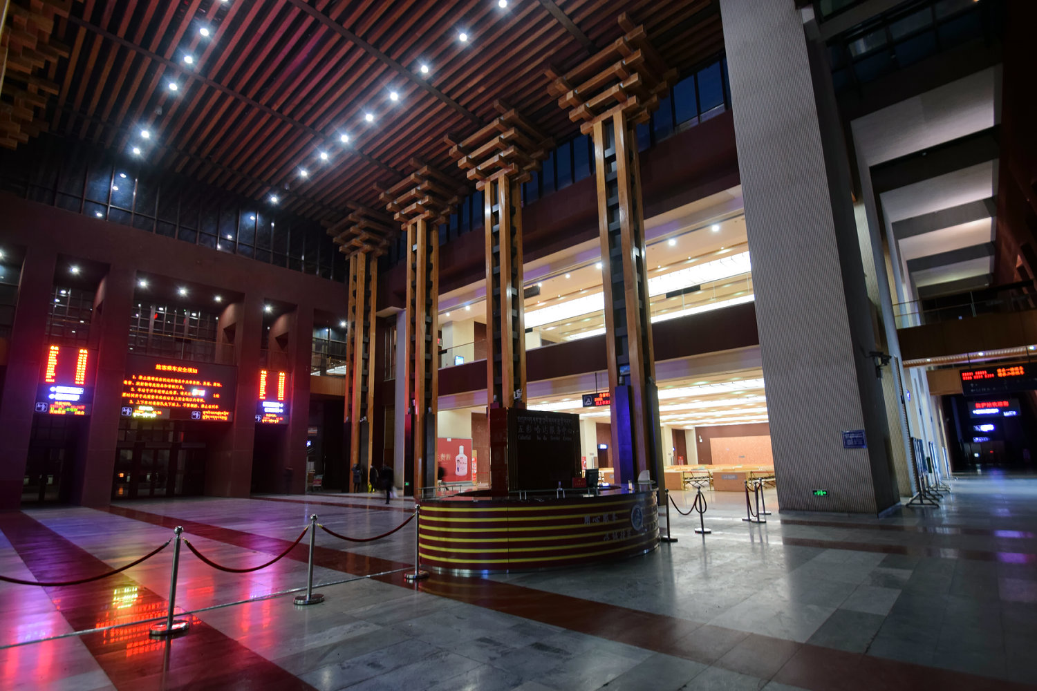 Concourse of Lasa (Lhasa) Railway Station